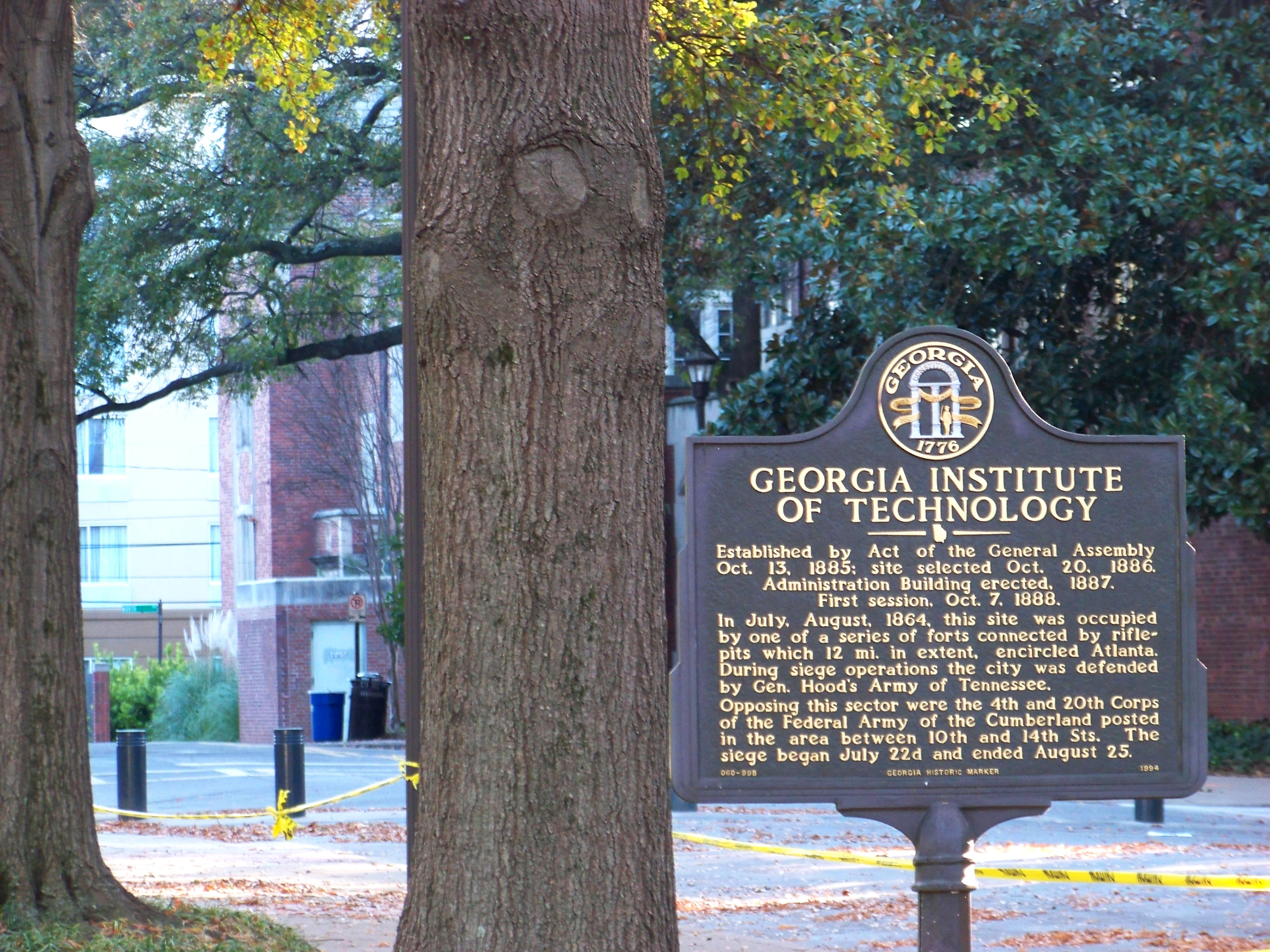 Georgia Institute of Technology